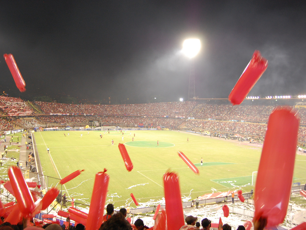 Estadio Atanasio Girardot in Medellin, Colombia